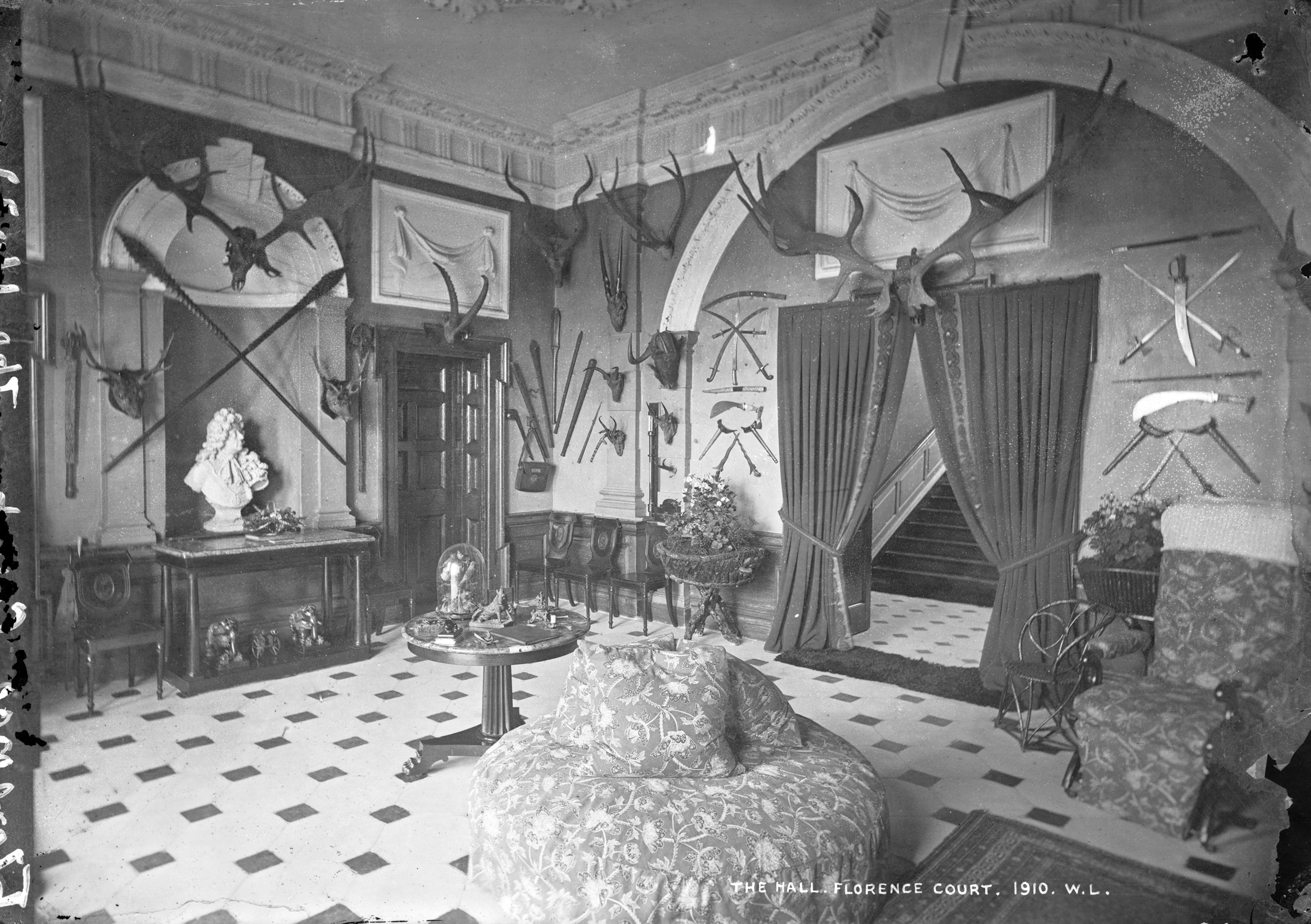 Not being entirely accurate here, as I don't think a Chakram (Indian throwing weapon) is actually among the array of lethal weapons here, but when I saw the Chintzy soft furnishings, it seemed like a snappy title! This is the Hall at Florence Court in Enniskillen. In comparison with the Hall at Powerscourt House where we visited recently, there're far fewer mounted heads but here we have a hair-raising array of weaponry that we just haven't come across before. It would be excellent to get accurate names for some of them... Photographer: Almost certainly Robert French of Lawrence Photographic Studios , Dublin Date: 1890s?? NLI Ref.: L_CAB_01910